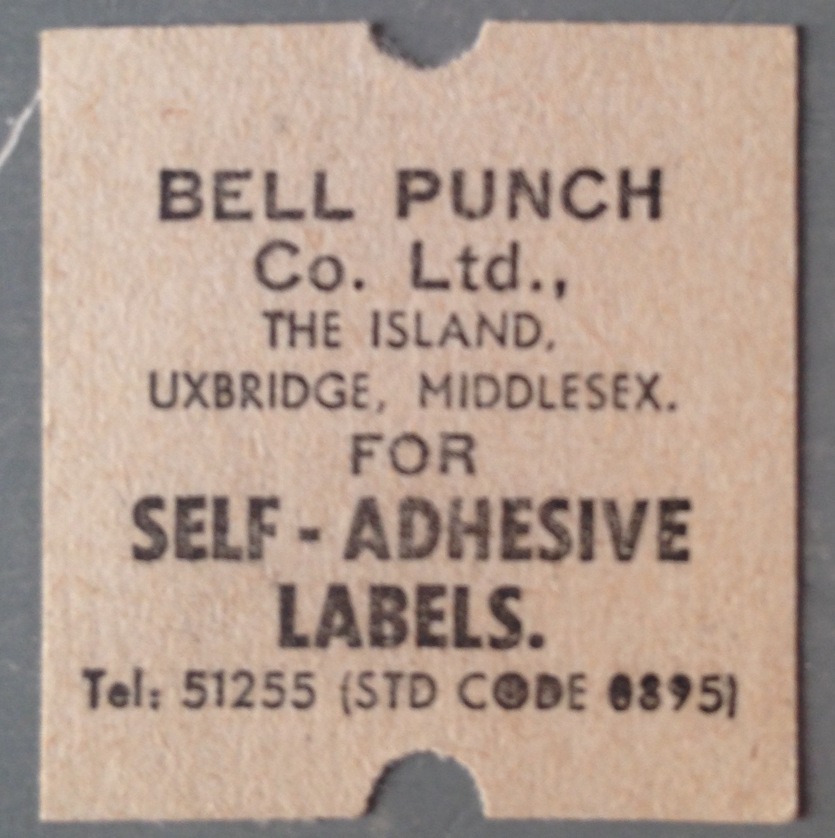 A photograph of the back of an old tram ticket some used in a book in the early 1970s.